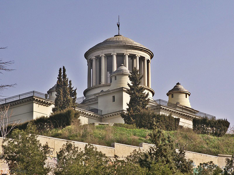 Royal Observatory of Madrid. One of the buildings of the National Astronomical Observatory of Spain. Projected by architect Juan de Villanueva and built between 1790 and 1846.